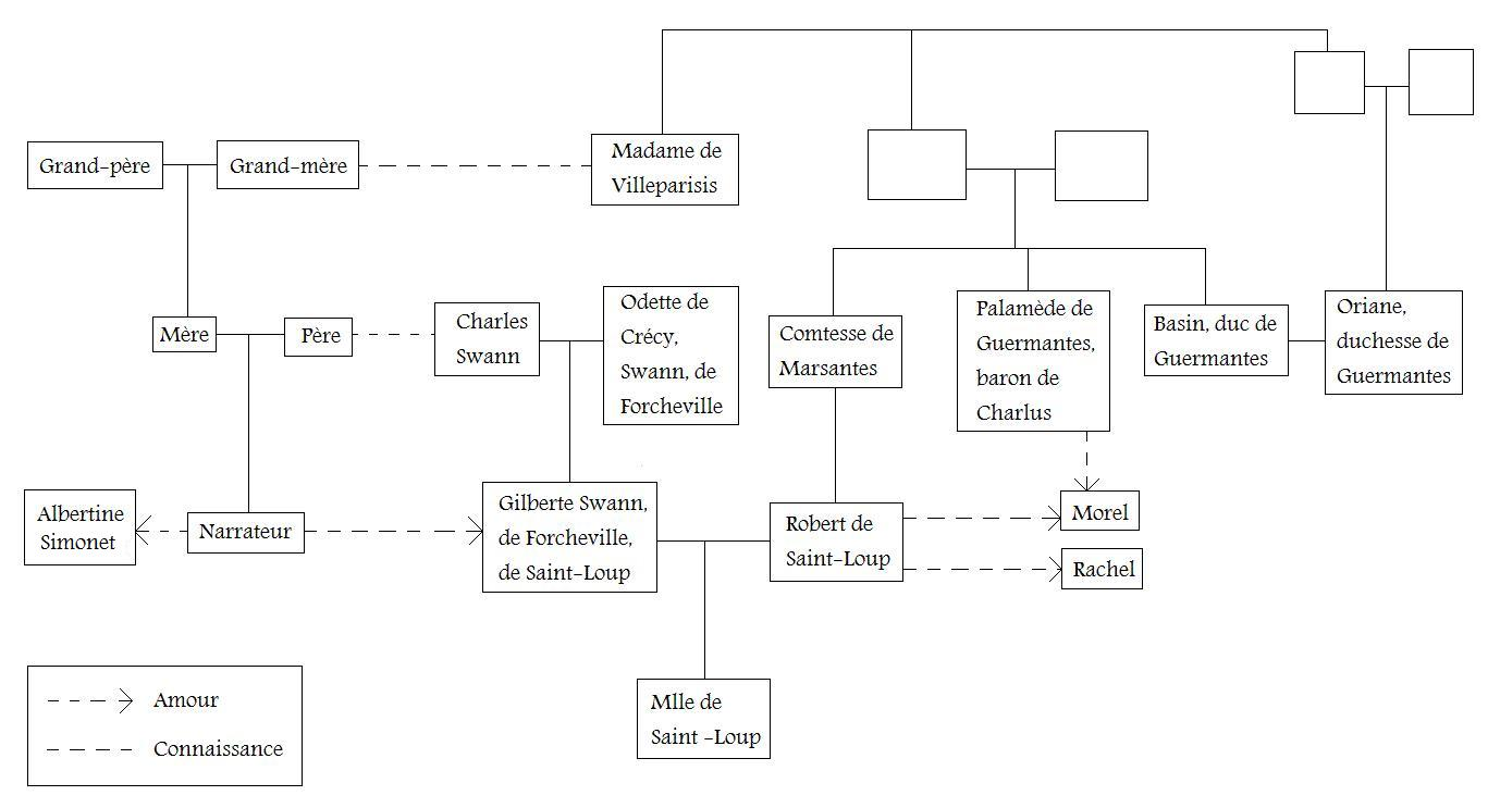 Proust - Family tree